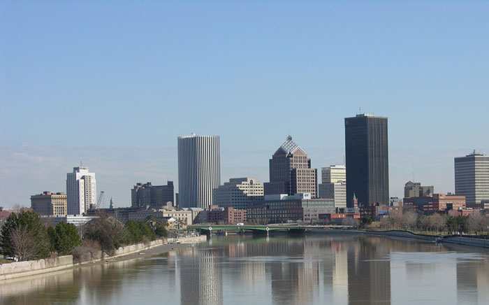 The picture that appears on the Buffalo's Rochester Resident Agency's main page